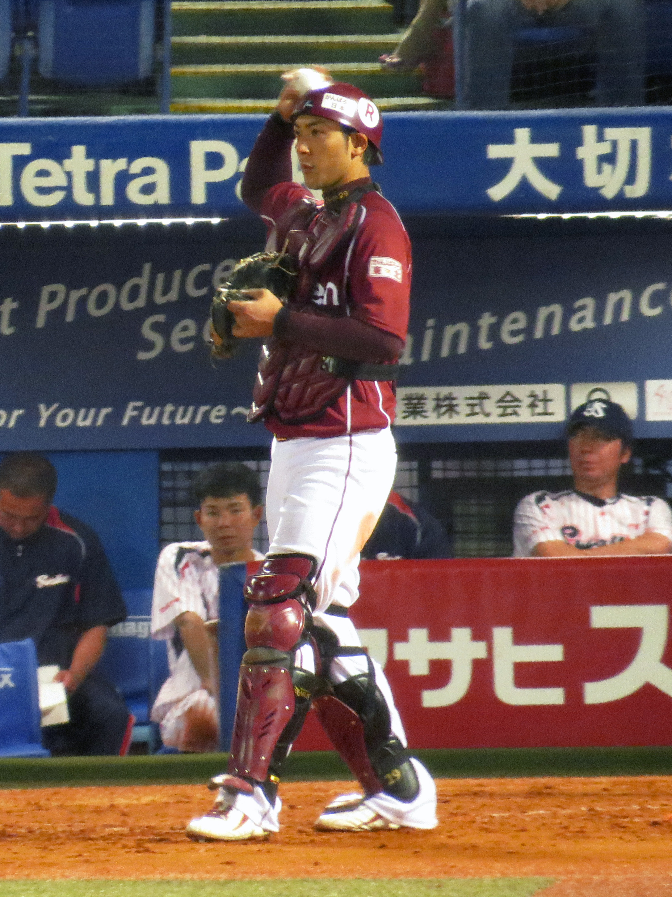 Shota Koseki, catcher of the Tohoku Rakuten Golden Eagles, at Meiji Jingu Stadium.